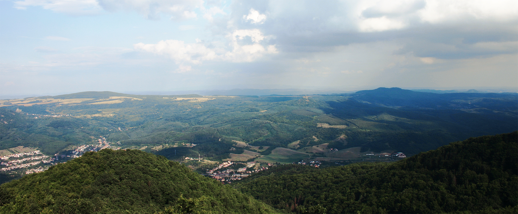 View from Karancs in Salgótarján, Hungary